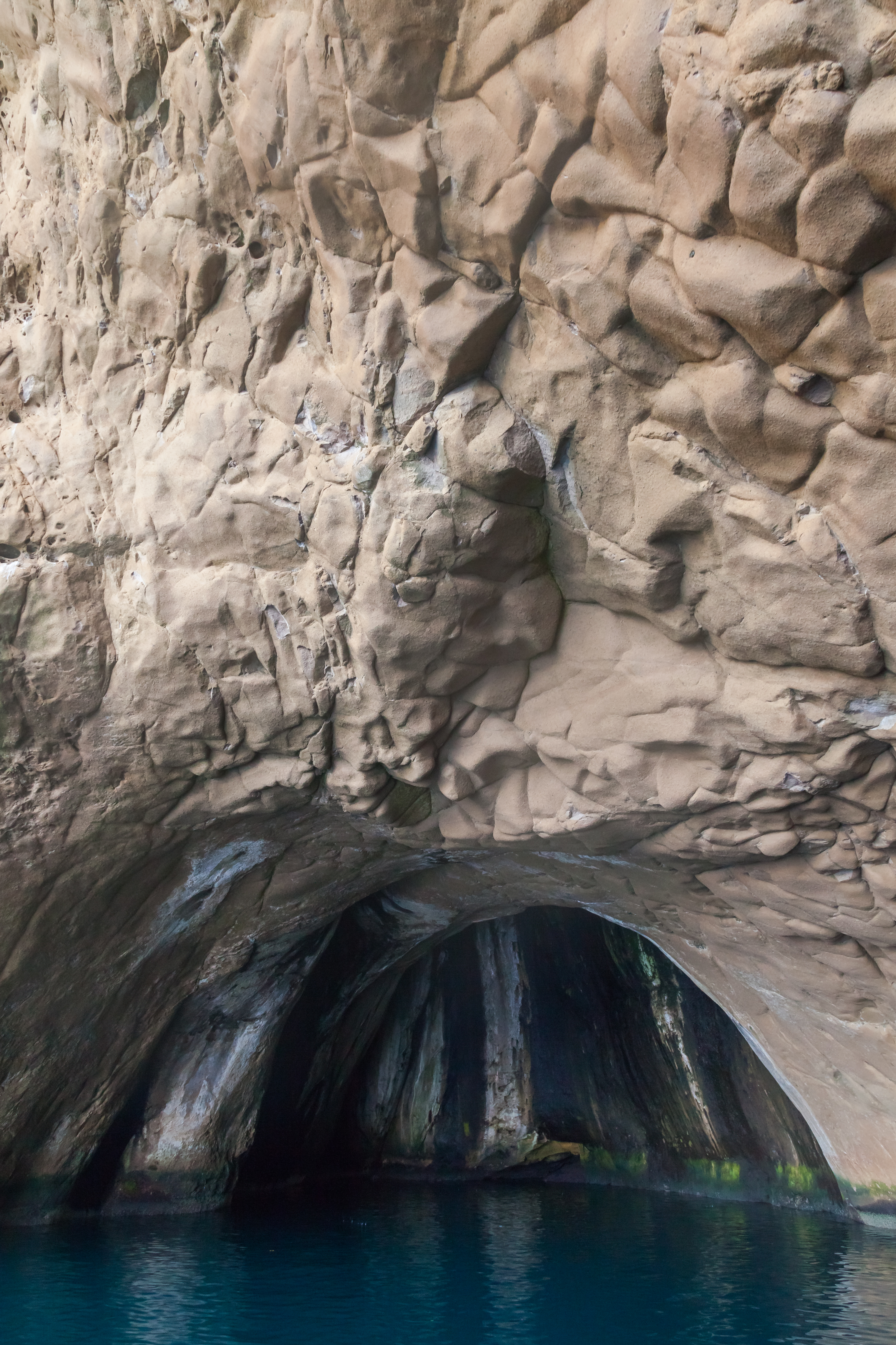 Cave in the cliffs of Heimaey, Westman Islands, Suðurland, Iceland